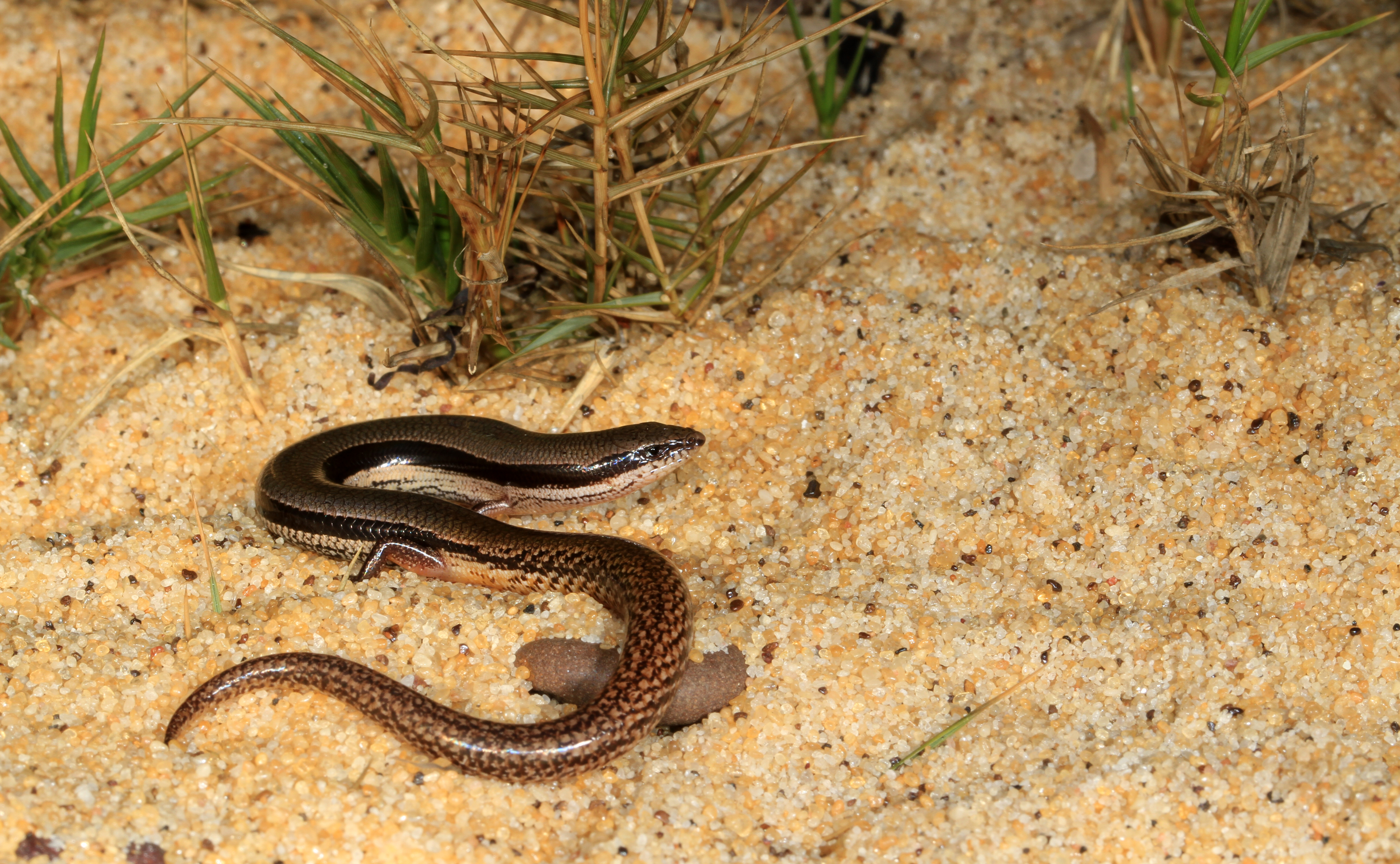 Mornington Peninsula, Vic.